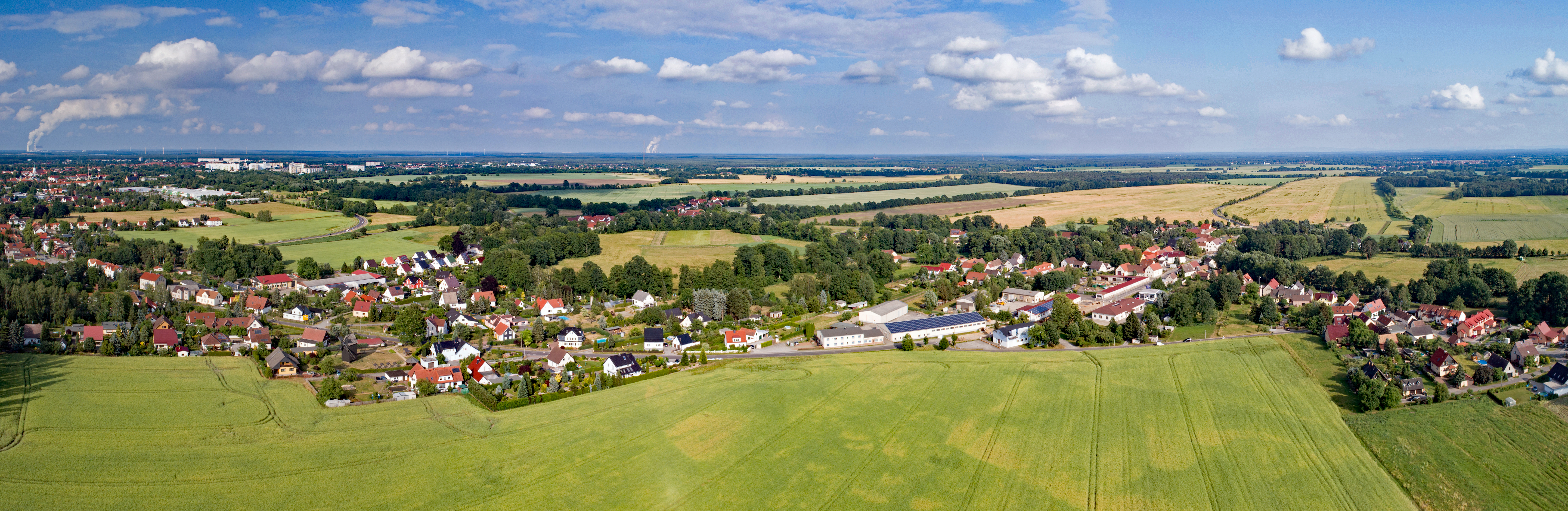 Dörgenhausen (Hoyerswerda, Saxony, Germany) Hornjoserbsce: Powětrowy wobraz Němcow pola Wojerec